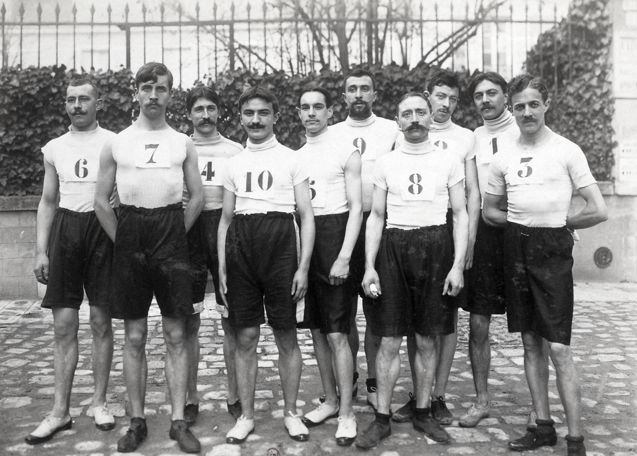 [Collection Jules Beau. Photographie sportive] : T. 16. Années 1901 et 1902 / Jules Beau : F. 33v. [Cross-Country, Championnat national, Saint-Cloud, 2 mars 1902]. L'équipe du Racing Club de France au 'National' de cross-country, le 2 mars 1902. Numéros: 1 Bottieau, 2 Michel Théato, 3 Louis Bonniot de Fleurac, 4 Jean Chastanié, 5 Georges Filliâtre, 6 Edmond Filliâtre, 7 Th. Burns, 8 A. Marchais, 10 Jean-Guy Gautier...